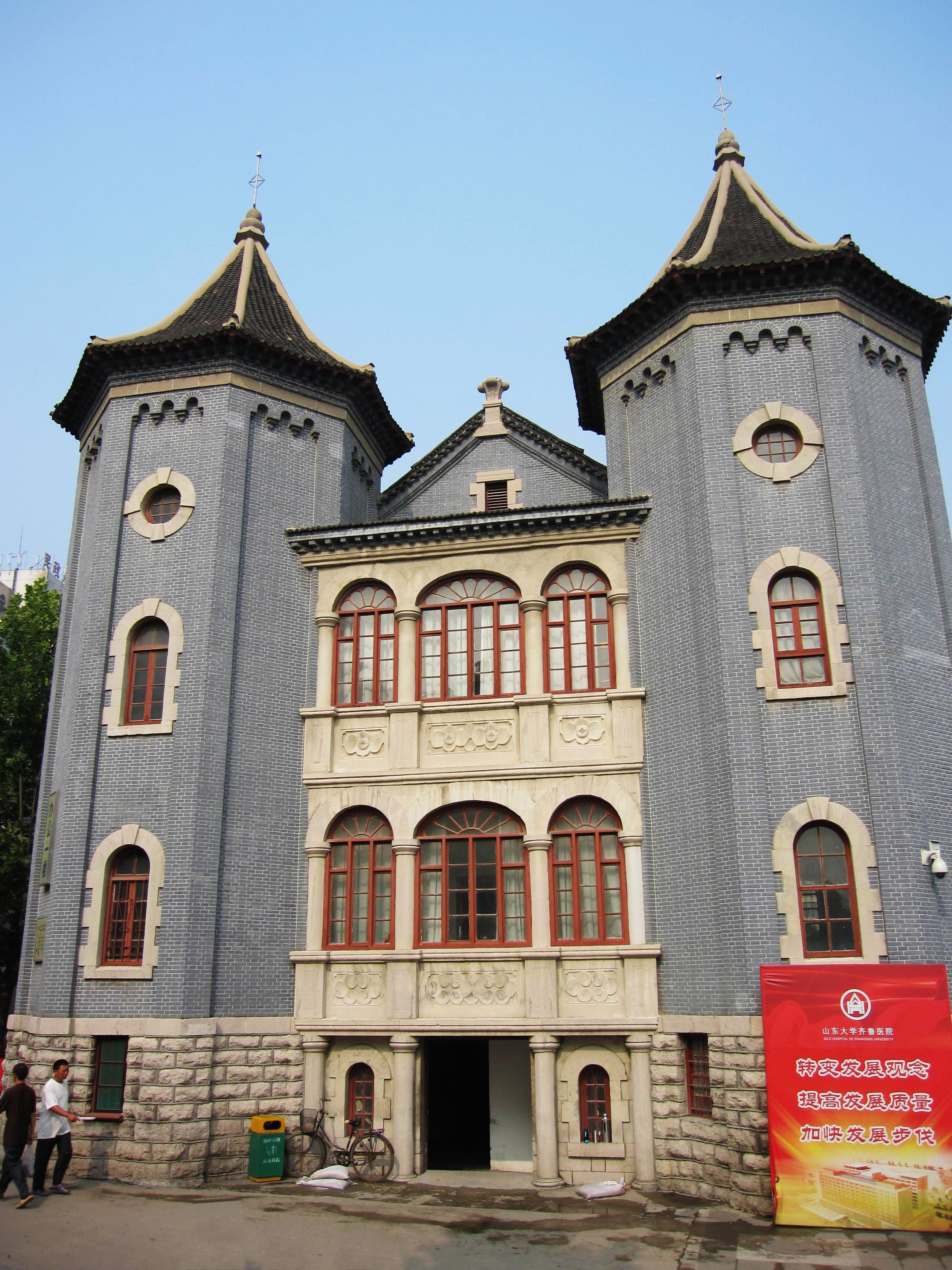 Photograph of a building formerly belonged to the Cheeloo Hospital, located at Shanong University, Jinan, Shandong Province, China. 中文（中国大陆）: 原教会大学齐鲁大学的附属医院齐鲁医院（今山东大学齐鲁医院）内的一栋历史建筑。